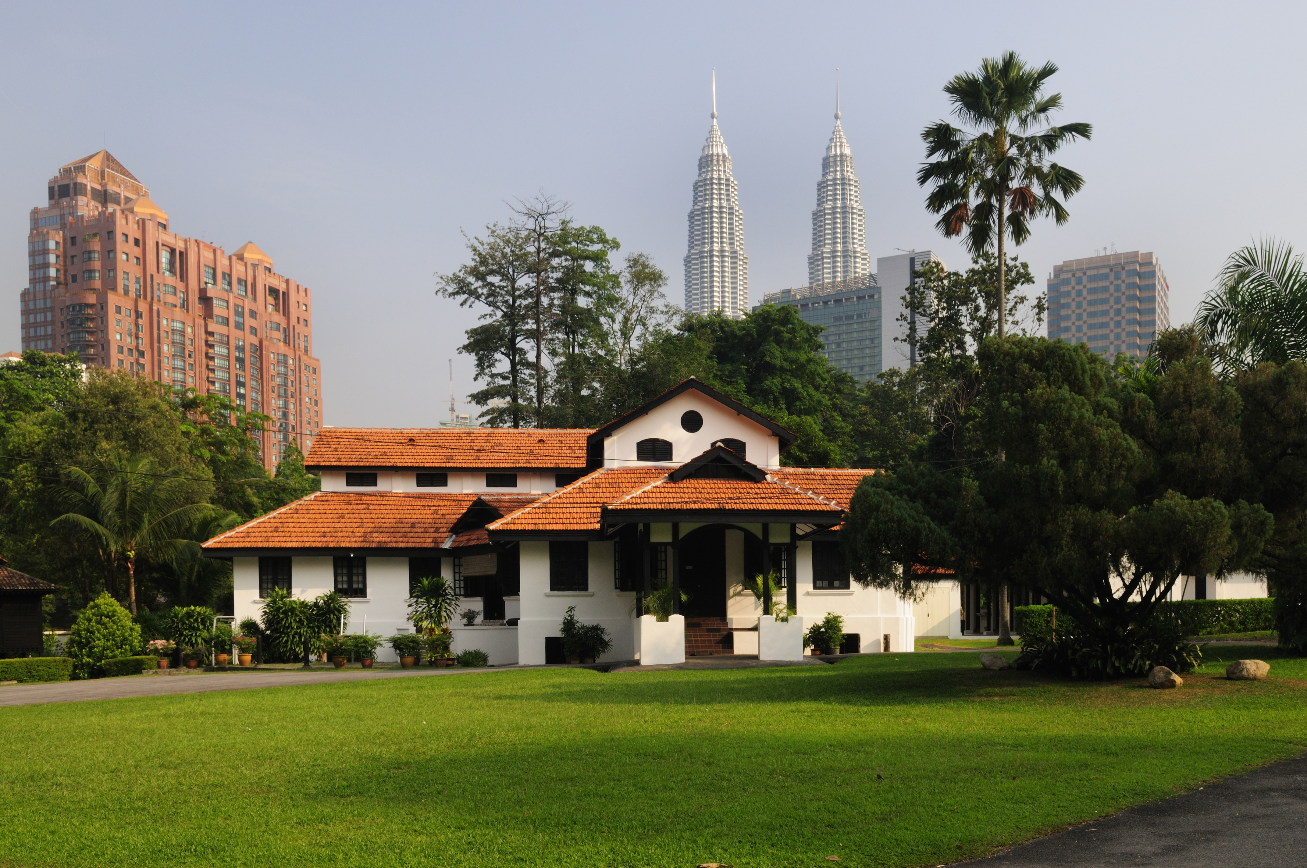 Badan Warisan Malaysia